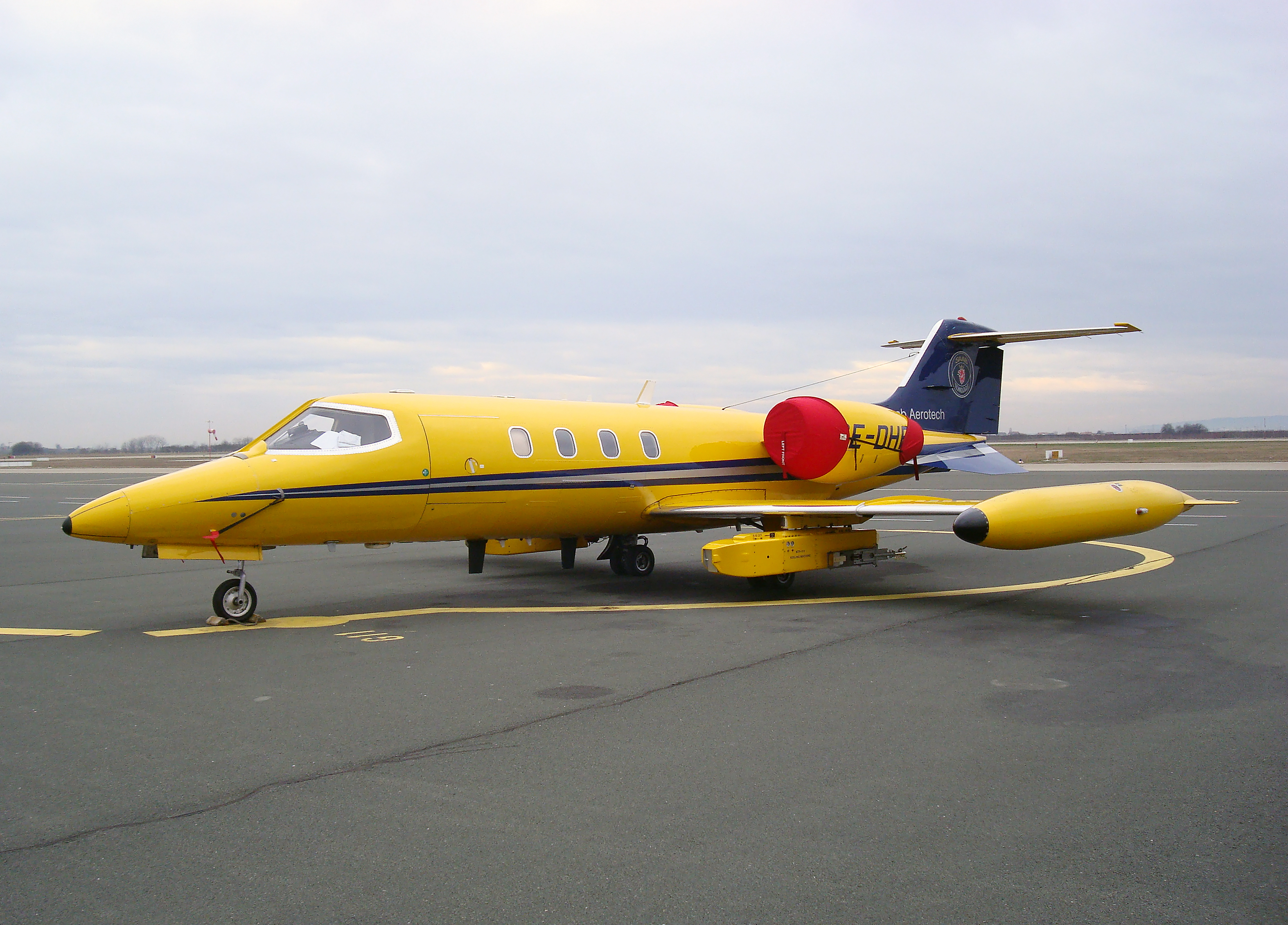 Saab aerotech parked with LR35 in Zagreb.